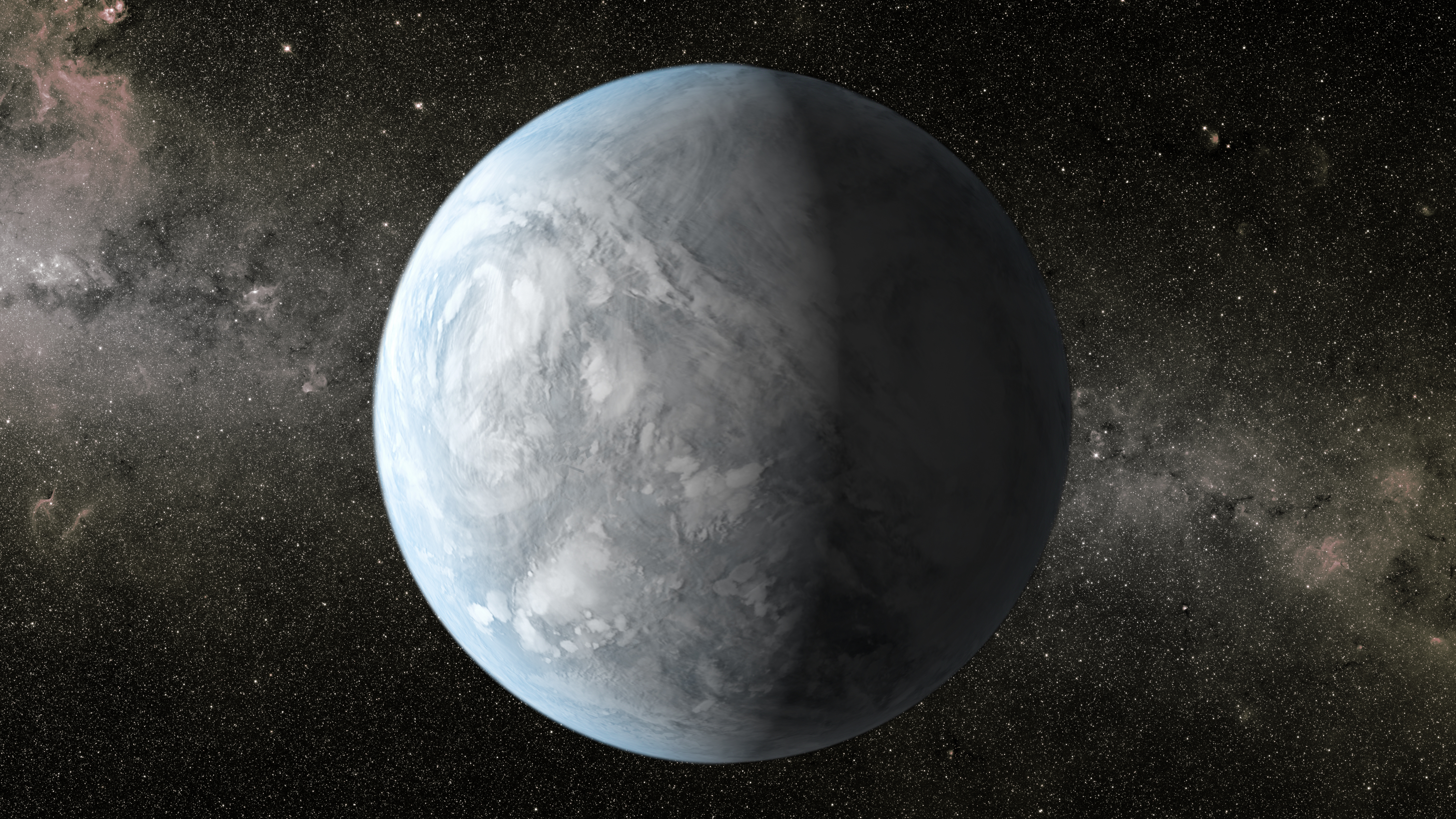 This artist's concept depicts Kepler-62e, a super-Earth-size planet in the habitable zone of a star smaller and cooler than the sun, located about 1,200 light-years from Earth.